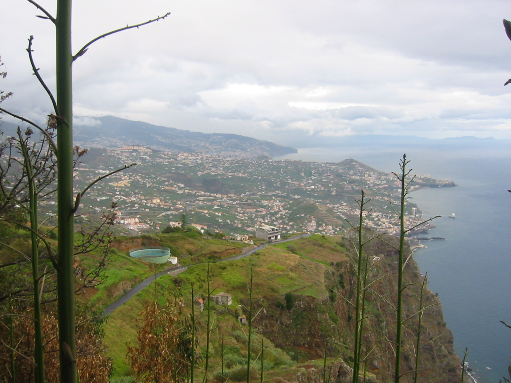 The cities of Câmara de Lobos (foreground) and Funchal (background), in Madeira.